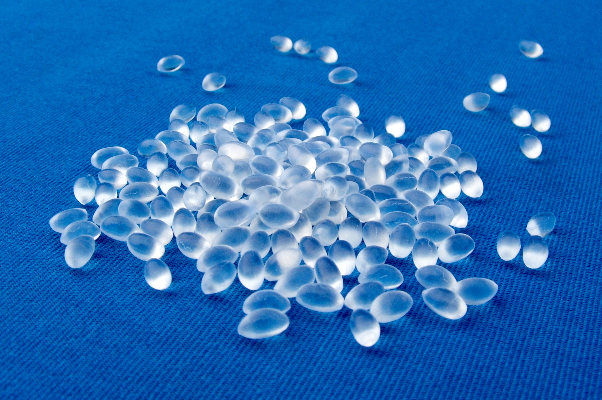 Chips of thermoplastic Urethane (TPU)